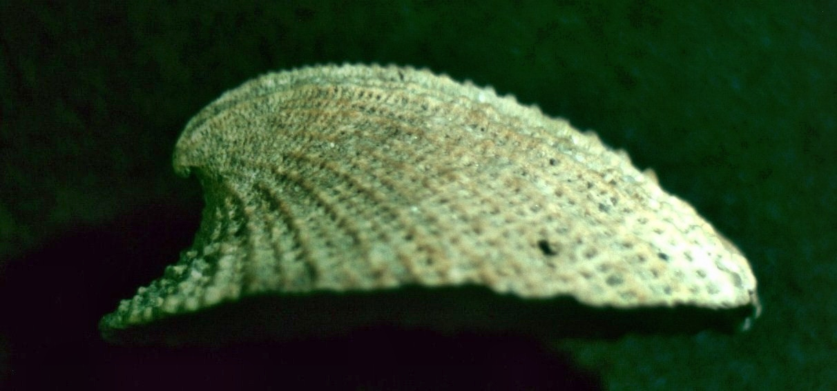 Emarginula dilecta (A. Adams, 1852), a keyhole limpet from the family Fissurellidae